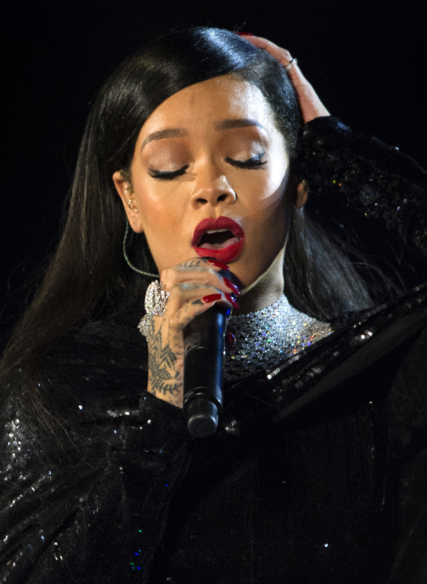 Rihanna sings during The Concert for Valor in Washington, D.C. Nov. 11, 2014